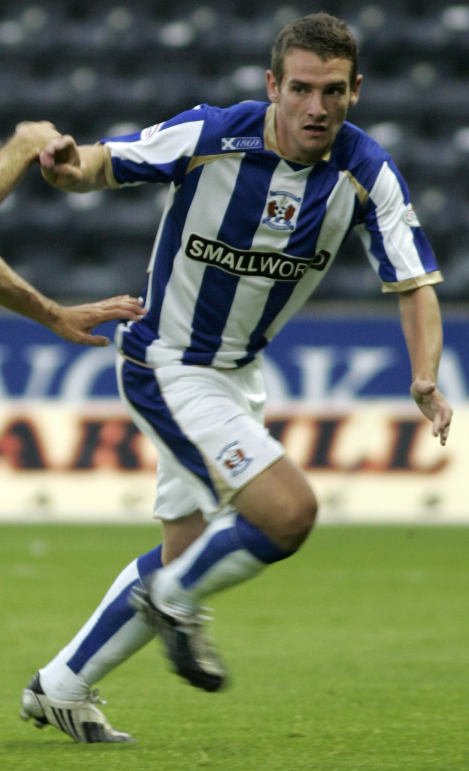 Craig Bryson Kilmarnock vs Morton - CIS Cup 2nd Round.